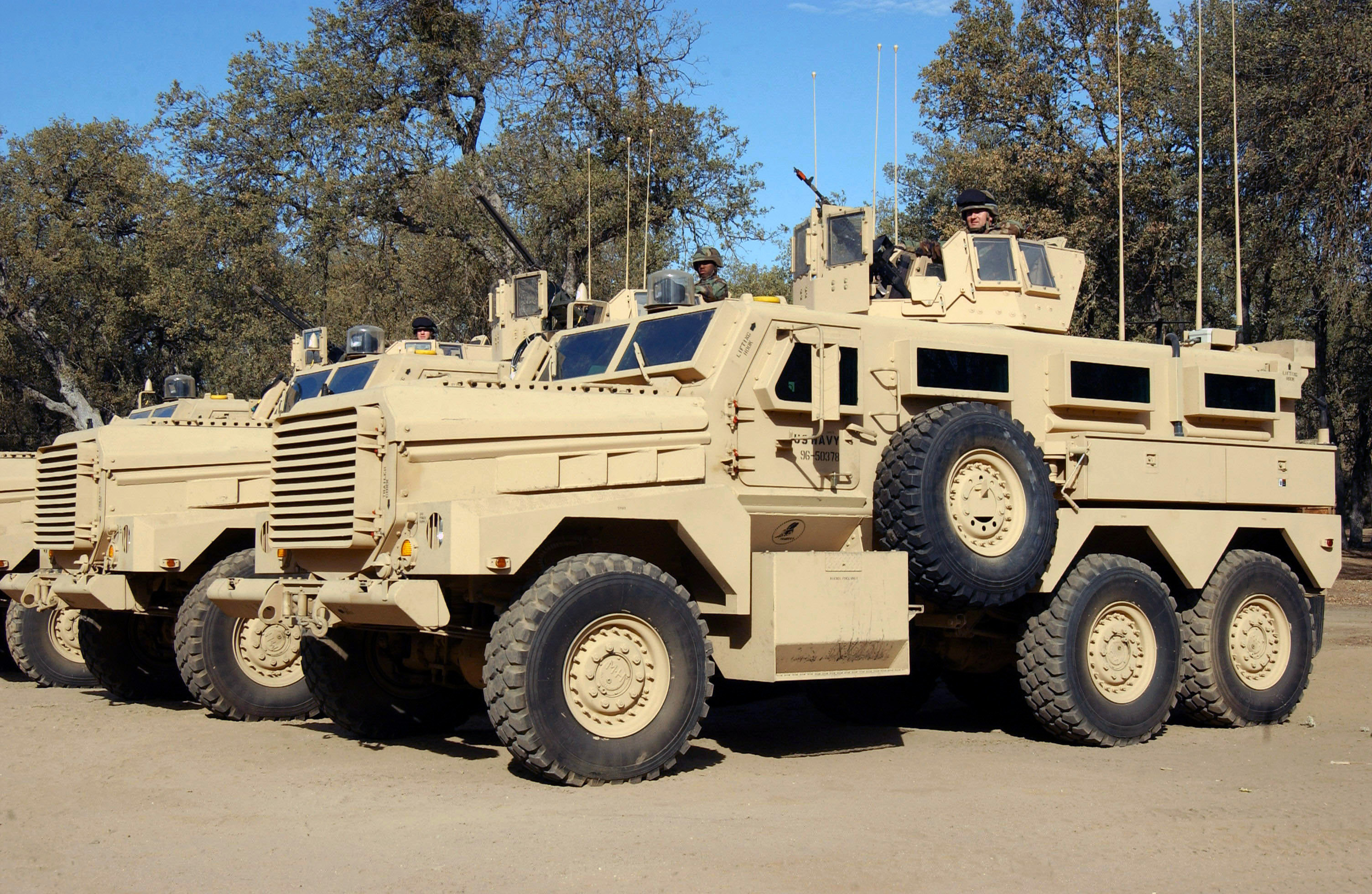 Steelworker 3rd Class Mathew Round, Culinary Specialist 3rd Class Christopher Bishop and Builder 2nd Class Joseph Milauckas, all assigned to Naval Mobile Construction Battalion (NMCB) 3, stand watch on the turrets of the new mine resistant ambush protected (MRAP) vehicles. Seabees from NMCB-3 are conducting a three-week field exercise known as Operation Bearing Duel (Fort Hunter Ligget, California).